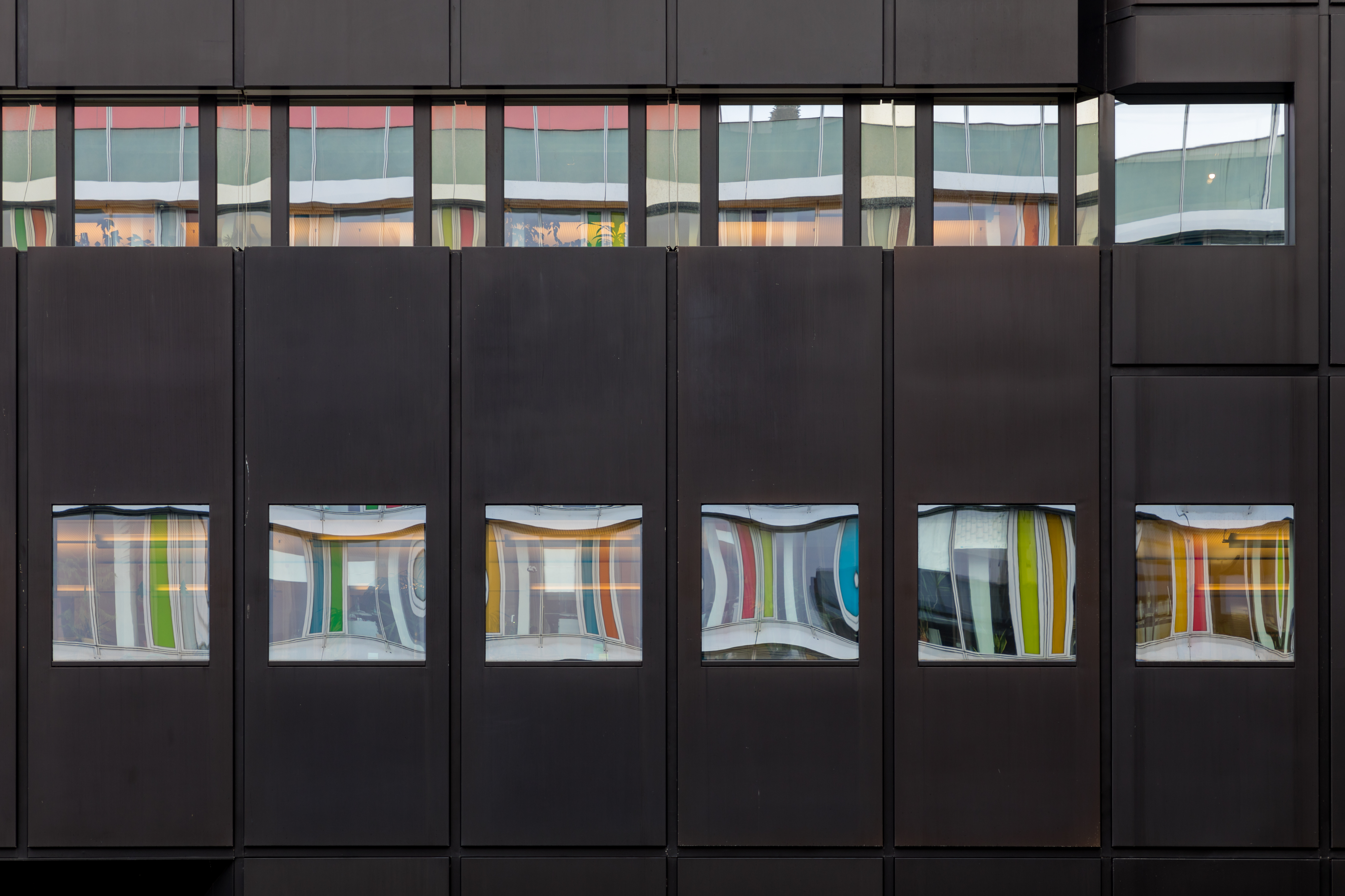 Facade of an office building of the Westdeutsche Lotterie, Münster, North Rhine-Westphalia, Germany